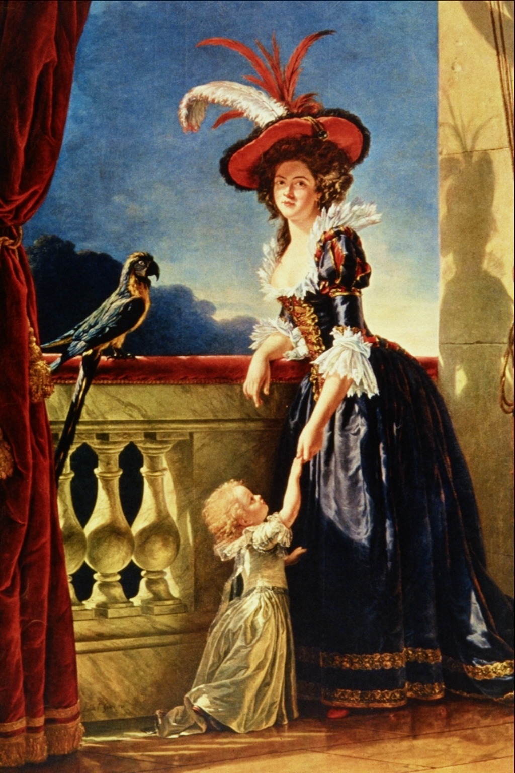 The portrait of Madame Louise-Elisabeth of France, Infante d'Espagne, Duchesse de Parme, was commissioned by King Louis XVI's aunts and it shows one of the daughters of Louis XV with her son. The shadows on her face and on the wall in back of her may simbolize death, in fact she died of a smallpox at the age thirty-two. Completed in 1788, one year after the commission, the picture idealizes its subject, who stands on a terrace in a relaxed, graceful pose, dressed in the low-cut and elaborately decorated costume popular in late eighteen-century.